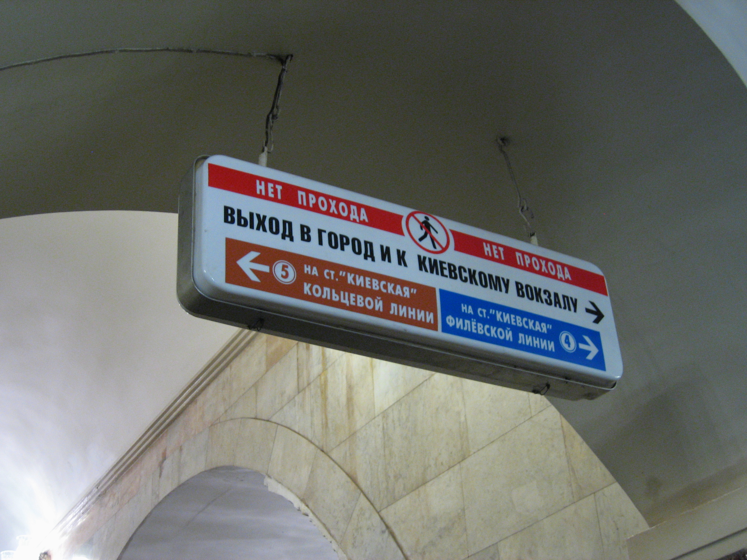 Moscow Metro, signs